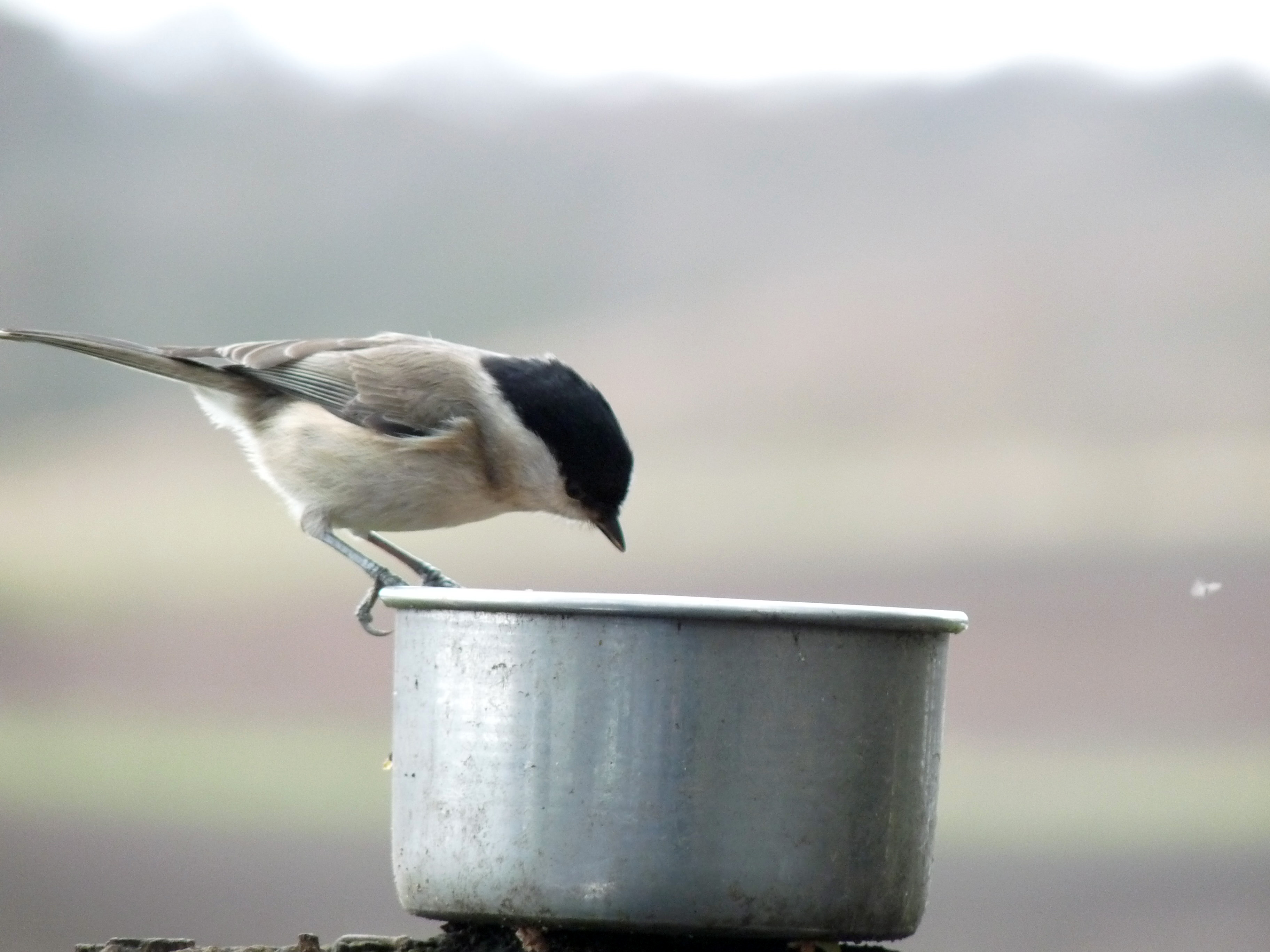 Latin name Poecile palustris Family Tits (Paridae) Overview This is a small, mainly brown bird, with a shiny black cap, dark 'bib' and pale belly. In the UK its identification is made tricky by the very similar appearance of our race of willow tit. They're so hard to identify that ornithologists didn't realise there were two species until 1897! Where to see them Despite their name, marsh tits are most often found in broadleaf woodland, and also copses, parks and gardens. They occur across England and Wales, with a few in southern Scotland but are most abundant in south Wales and southern and eastern England. When to see them At any time of year What they eat Insects and seeds. If marsh tits find a good supply – perhaps at a garden feeder – they may start to hoard seeds, burying and hiding them for a rainy day. Their hippocampus – the part of their brain which specialises in remembering things – is large, bigger than a great tit's.